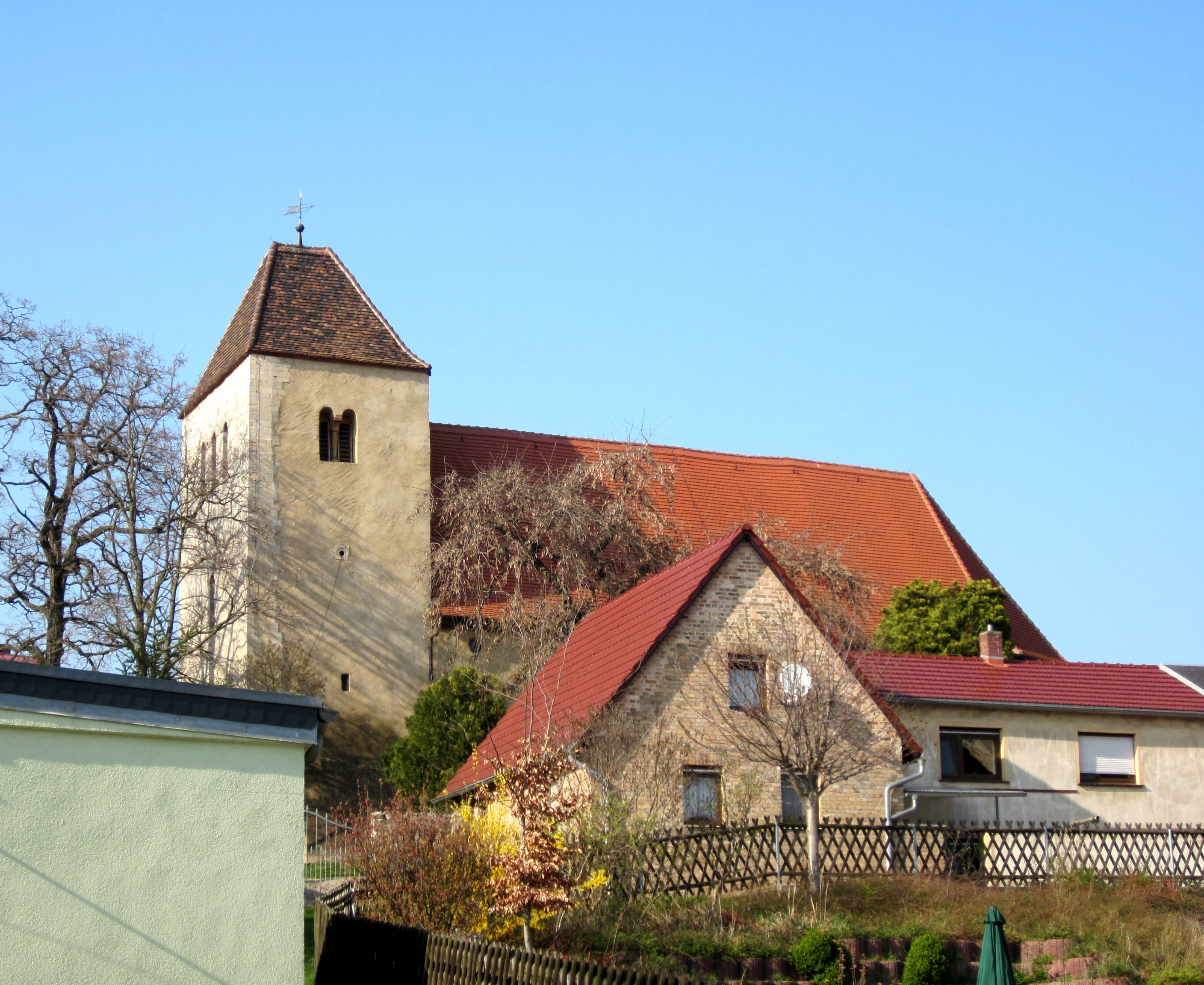 St. Peter's Church in Esperstedt (Obhausen, district: Saalekreis, Saxony-Anhalt)